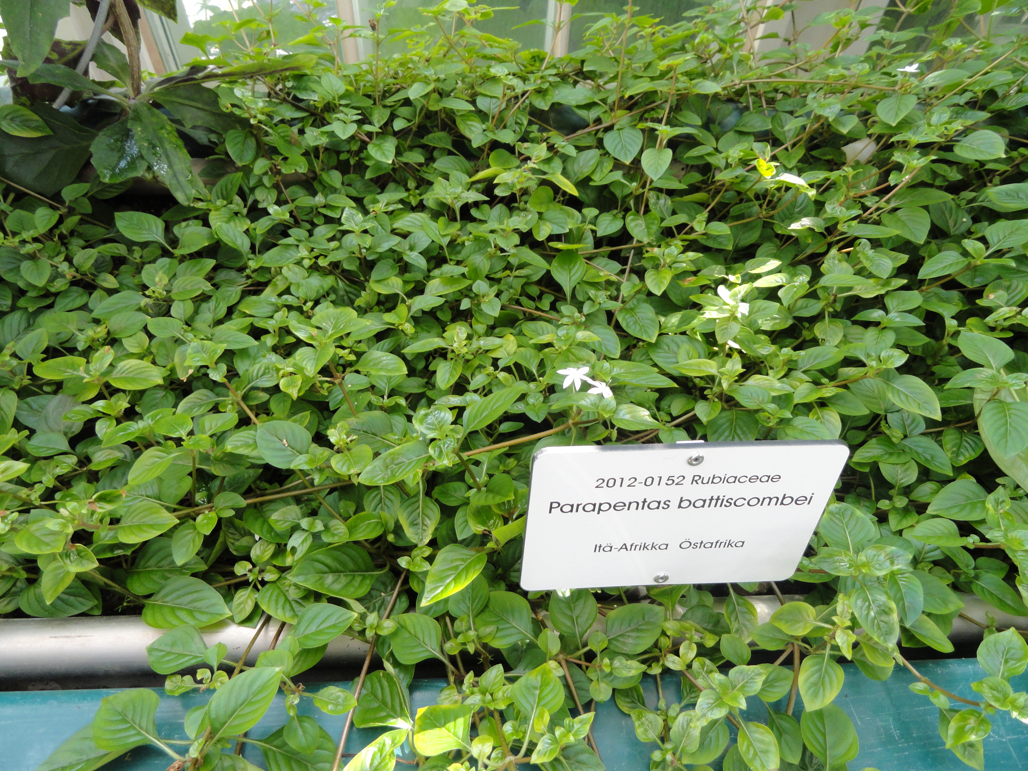 Botanical specimen. The University of Helsinki Botanical Garden at Kaisaniemi